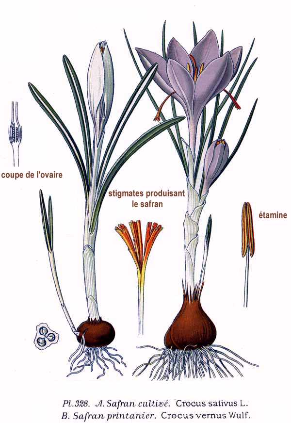 Crocus sativus L., Crocus vernus Wulf.